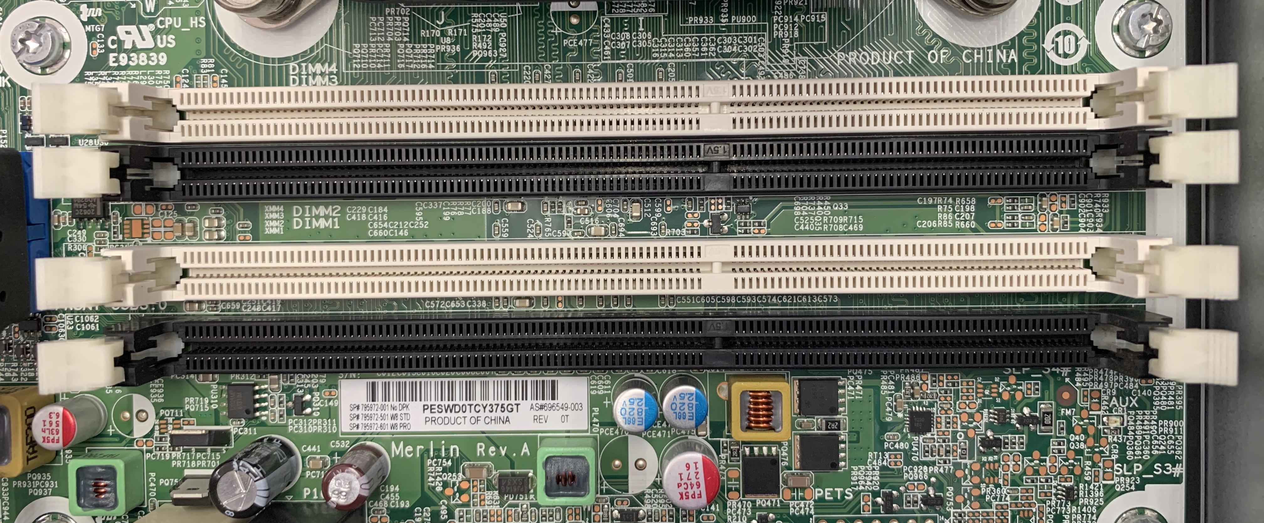 Four SDRAM DIMM slots on a computer motherboard